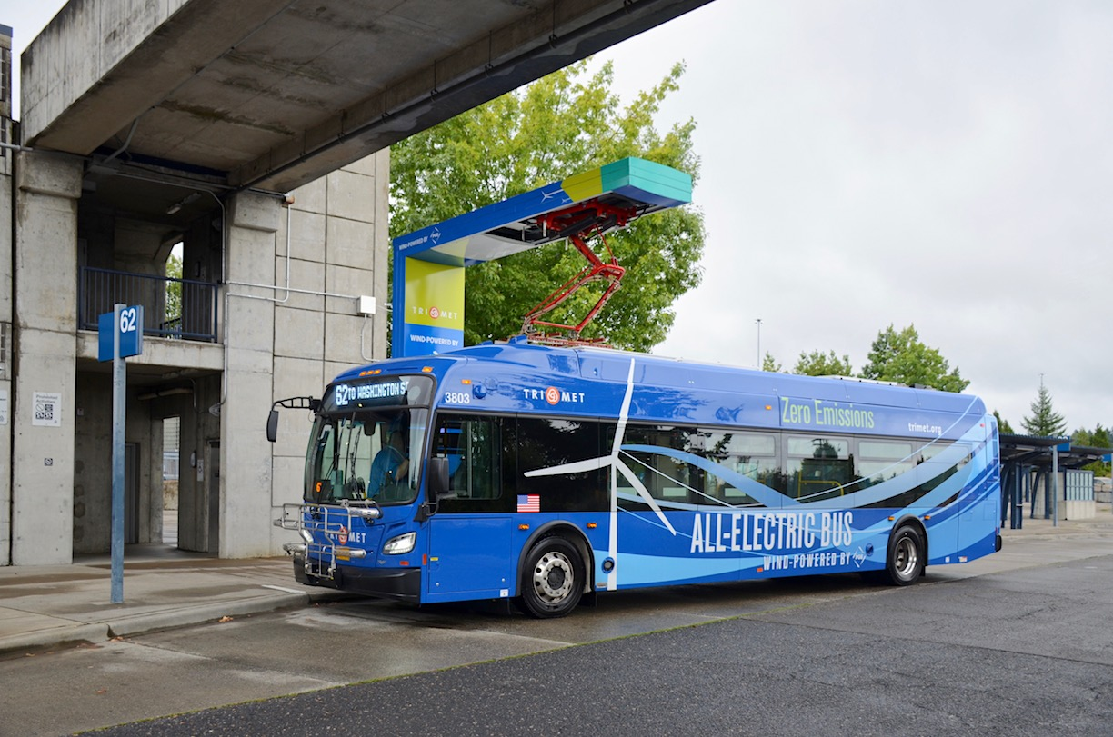 TriMet bus 3803, a 2019-built New Flyer XE40 (battery-electric bus), in service on line 62-Murray Blvd. in September 2019. It is shown connected to the overhead charging apparatus at Sunset Transit Center, the northern end of line 62, during a layover.